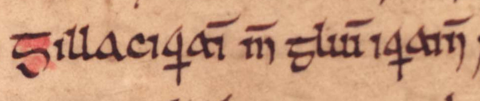 An excerpt from folio 36v of Oxford Bodleian Library MS Rawlinson B 489 (the Annals of Ulster). The excerpt concerns Gilla Ciaráin mac Glún Iairn (died 1014).